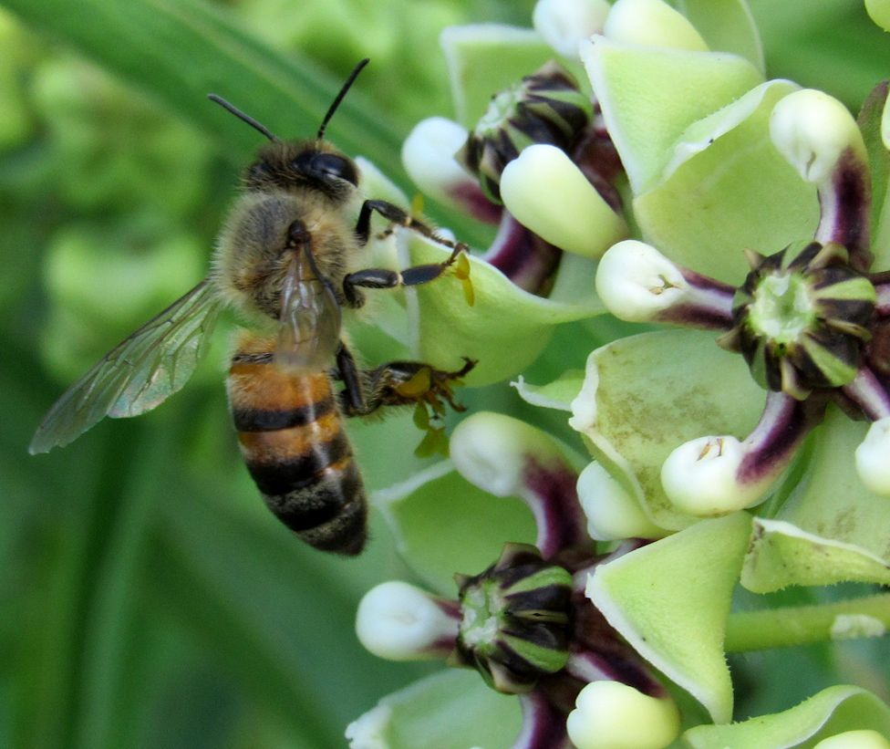 Photograph of a honeybee (Apis mellifera) on an antelope horn milkweed (Asclepias asperula) showing milkweed pollinia attached to the bee's legs. Photographed near San Marcos, Texas, in April 2015.